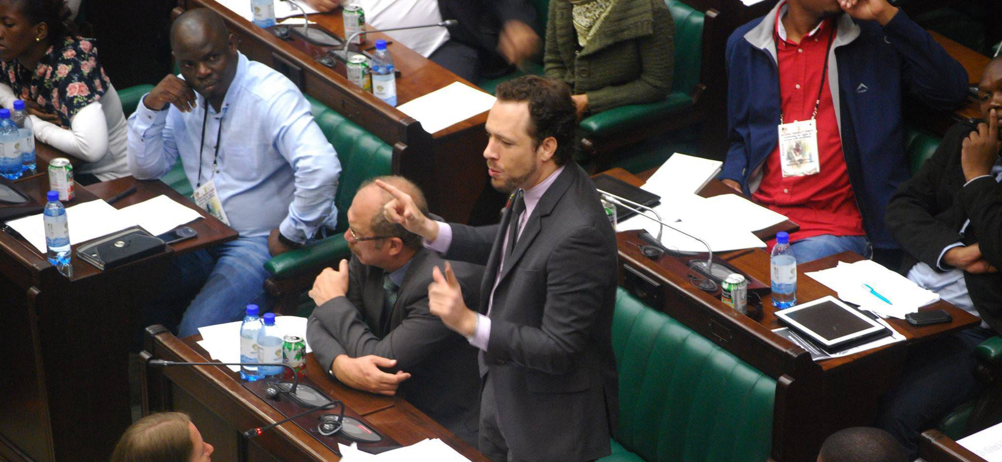 Serving as an Honorable Member of Disability Rights Parliament (Parliament of South Africa). An inaugural Disability Rights Parliament is historic in that it takes place just before the first anniversary of the departure of the father of our nation, Mr Nelson Rolihlahla Mandela. Braam also served as a member of the Commission on Education during the same time. Among the key recommendations made on the five priority areas were: improved access to healthcare by persons with disabilities; addressing the needs of children with disabilities at early childhood development phase; the implementation of plans to enable people with disabilities to access economic opportunities; improved physical access to courts and other justice centers; and a deliberate effort to ensure ownership of land by people with disabilities.